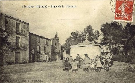 Old poste Card of Vérargues (Hérault)